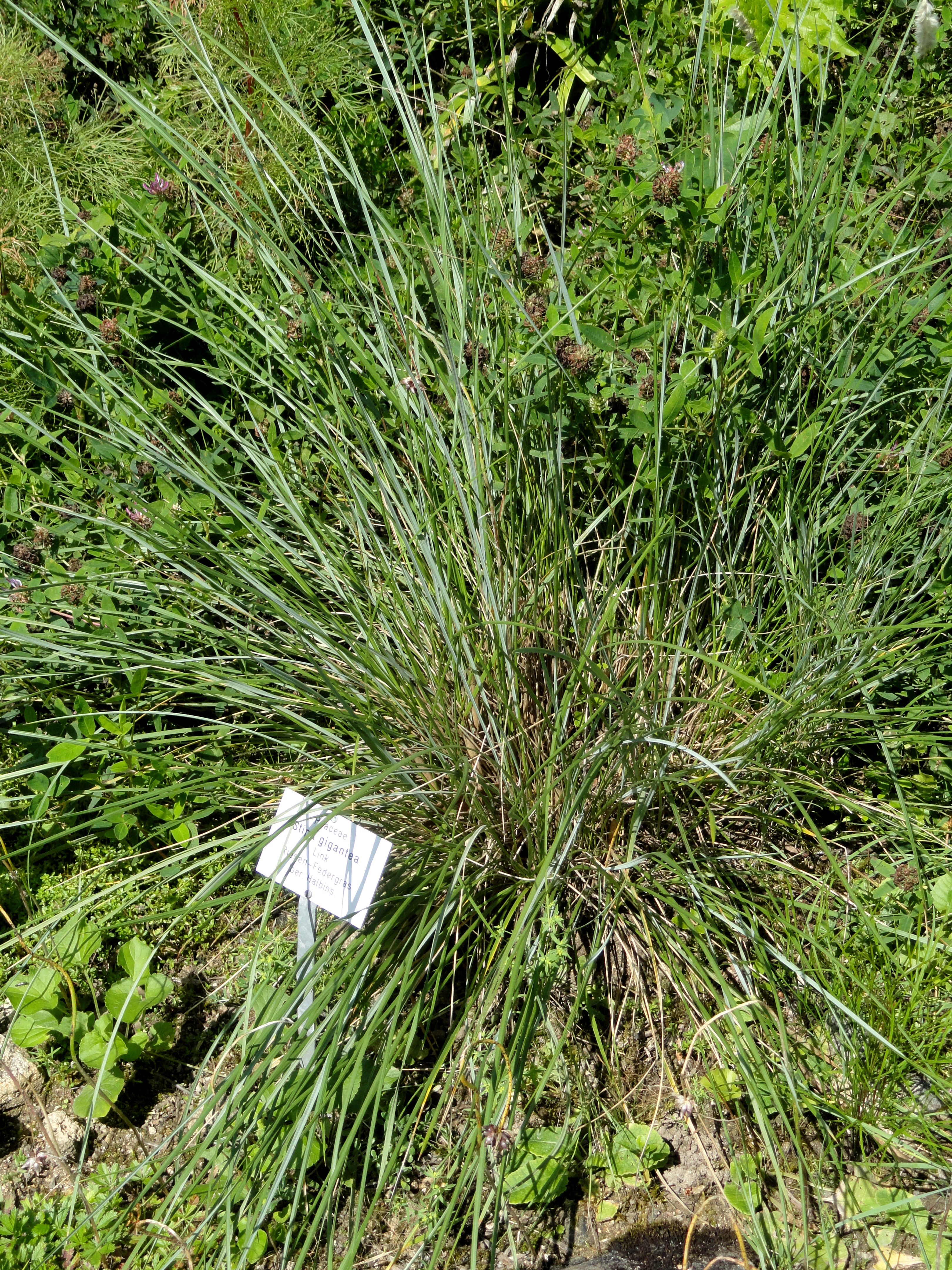 Botanical specimen in the Botanischer Garten, Frankfurt am Main, located at Siesmayerstraße 72, Frankfurt am Main, Germany.